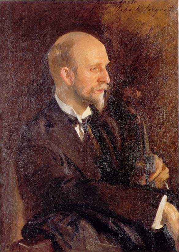 Charles Martin Loeffler John Singer Sargent -- American painter 1903 Isabella Stewart Gardner Museum, Boston Oil on canvas 87.5 x 62 cm (34 1/2 x 24 3/8 in.) inscribed: to Mrs Gardner con bouone feste / from her friend John S. Sargent Jpg: local